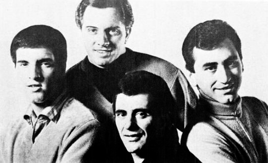 Trade ad for The 4 Seasons's single "I've Got You Under My Skin". To better adapt it to his respective Wikipedia article, the ad was cropped and cleaned in a graphics editing program. The original can be viewed at the source below.